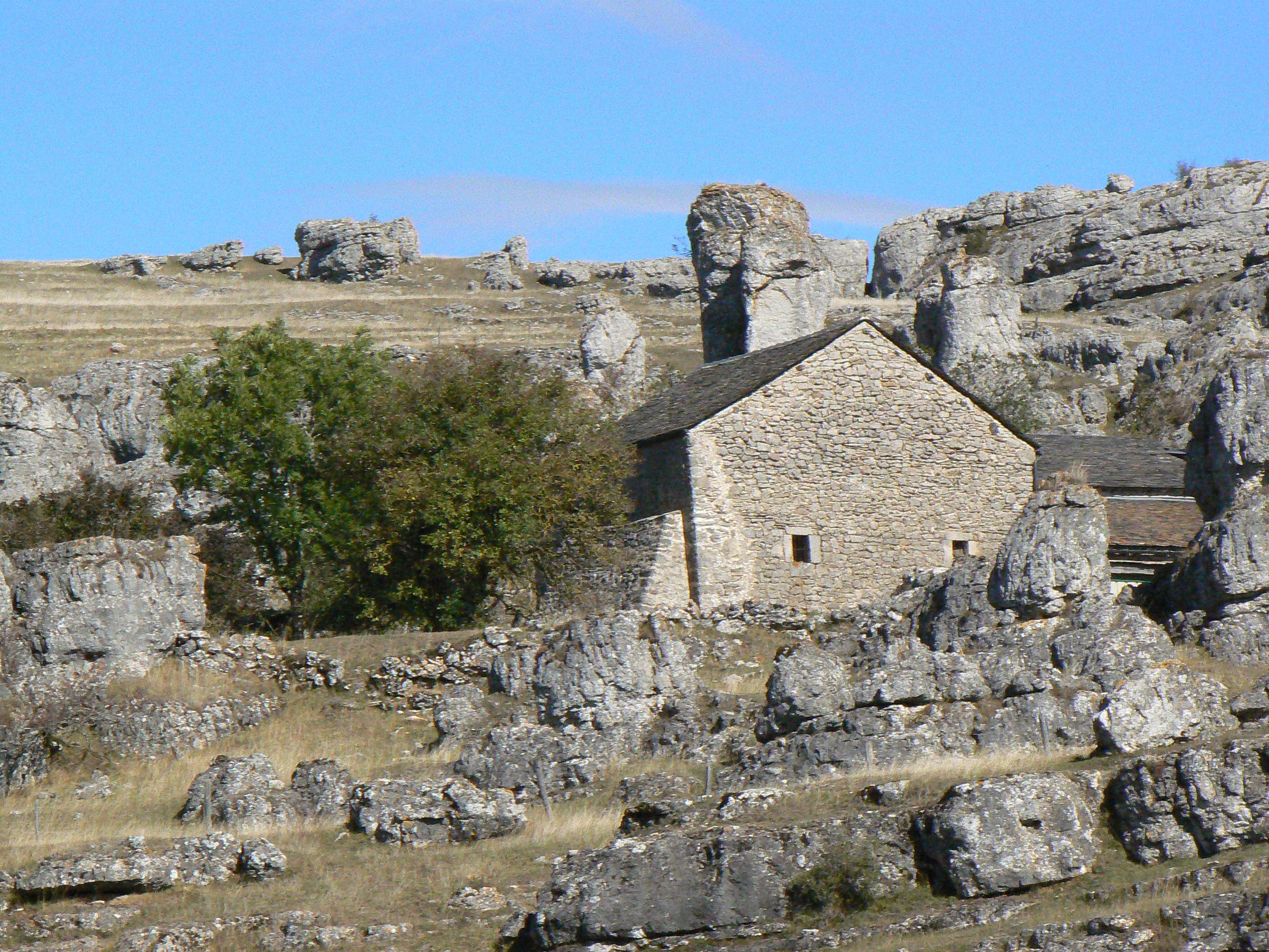 Nîmes-le-Vieux in Lozère (France)